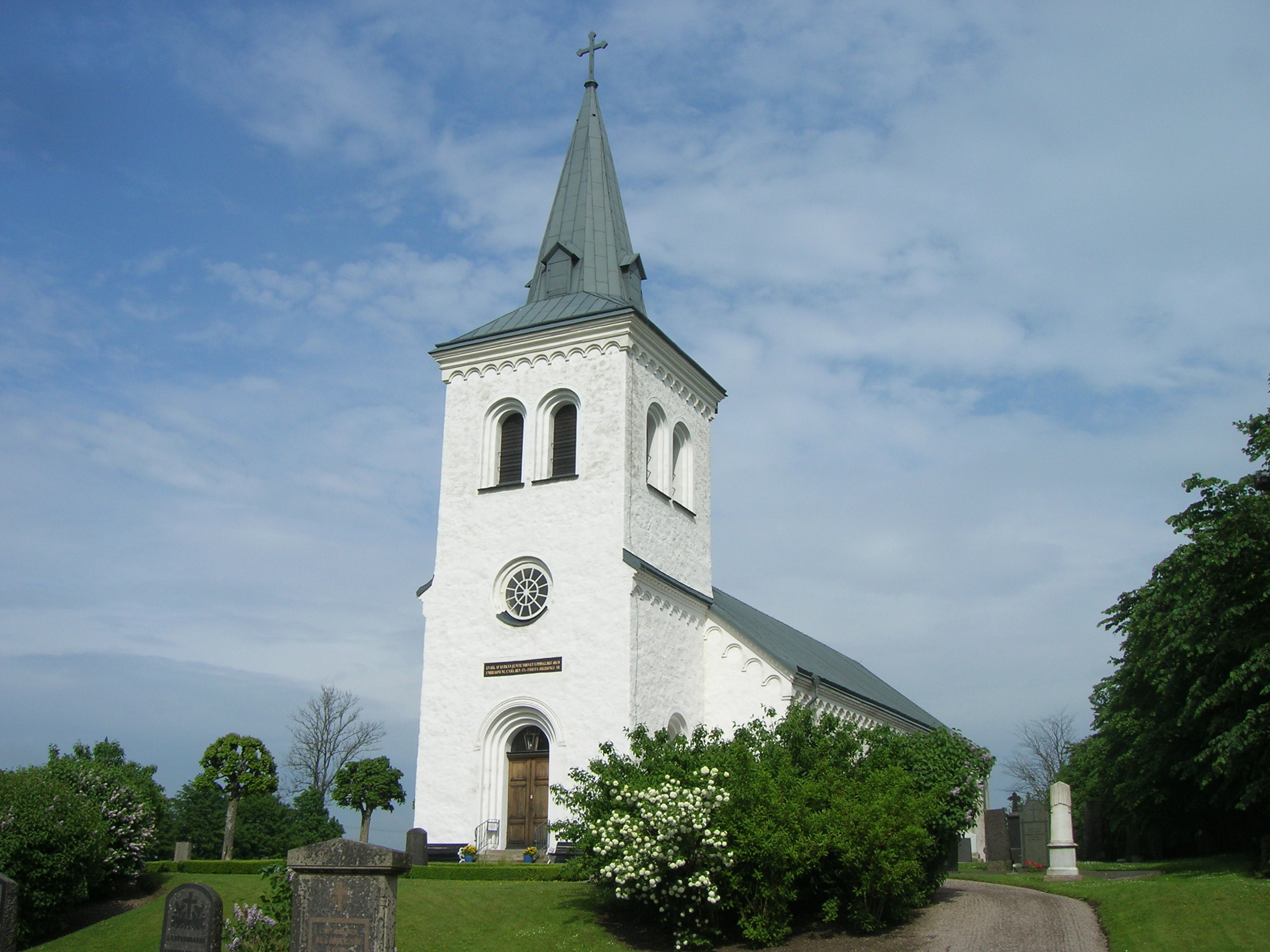 Östra Kärrstorp Church, Sjöbo Municipality, Scania, Diocese of Lund, Sweden.